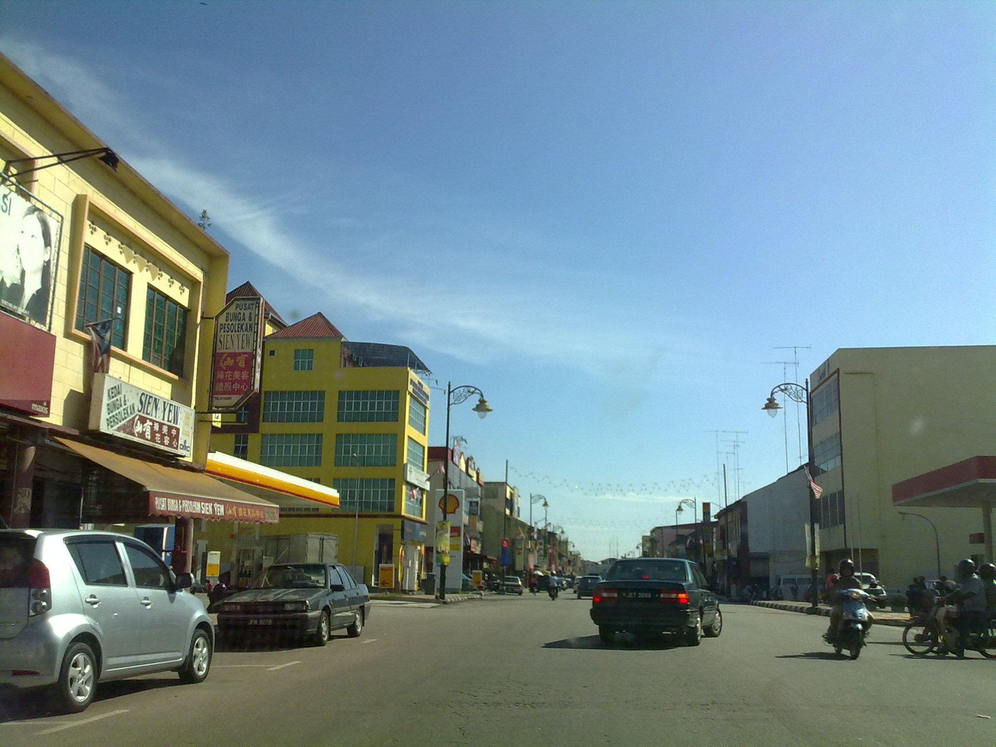 Tangkak Main Road